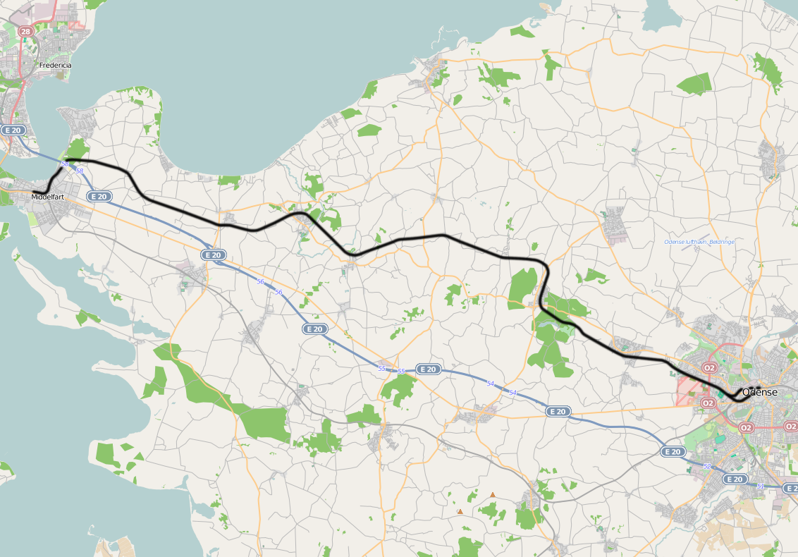 Railway line Odense - Middelfart